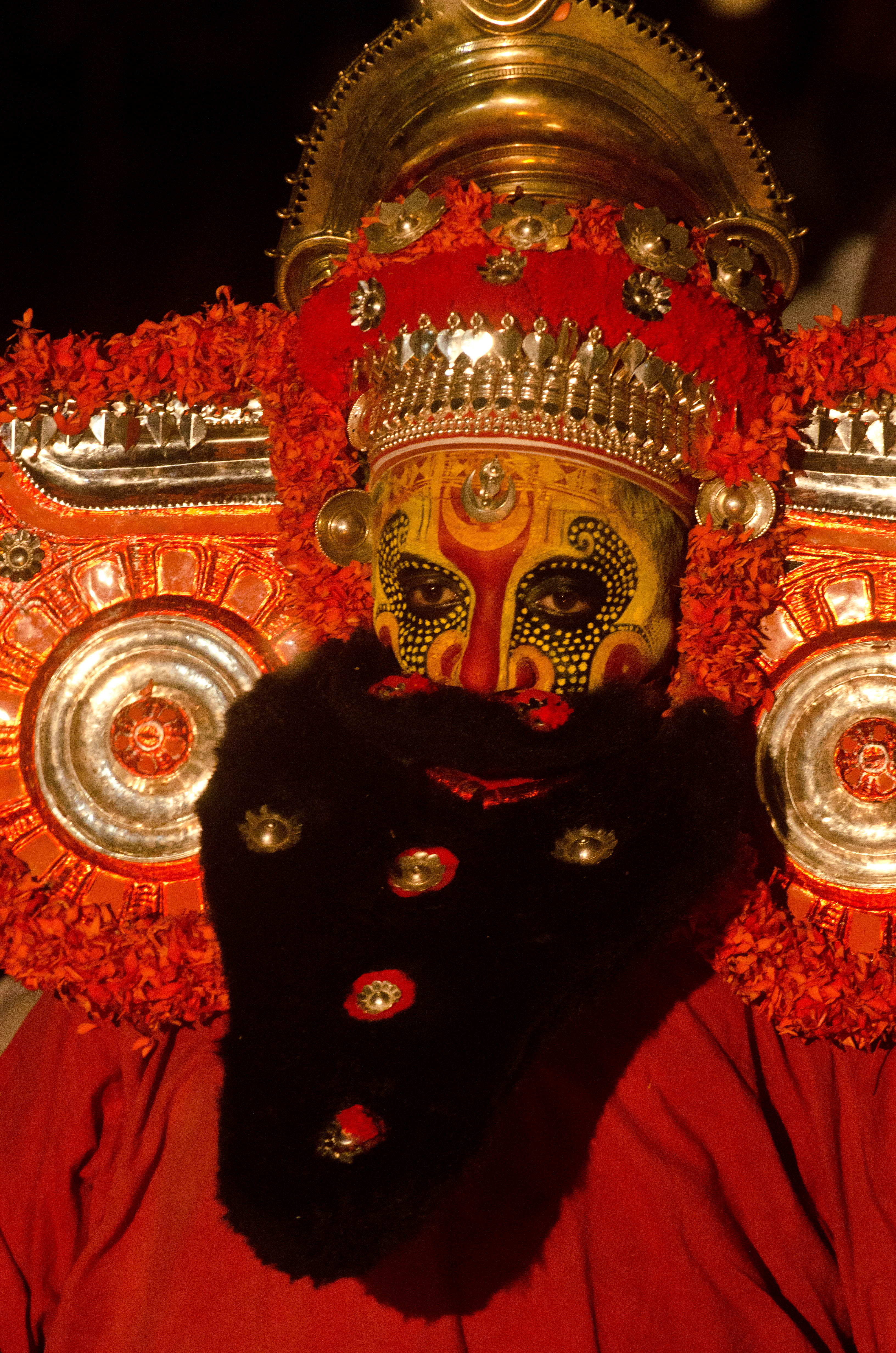 Face closeup of Kanttaakarnan theyyam at Mallappalli Karangatt tharavad,Kunhimangalam near Payyannur